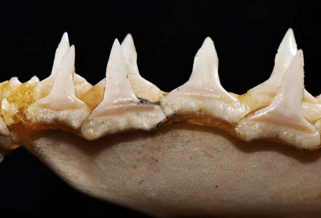 Carcharhinus longimanus